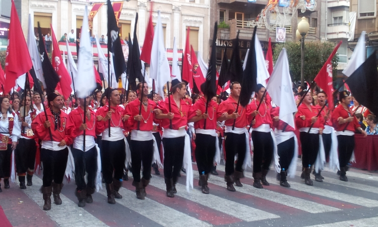 Comparsa de Piratas de Villena